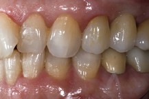 Picture of a ceramic abutment and final crown